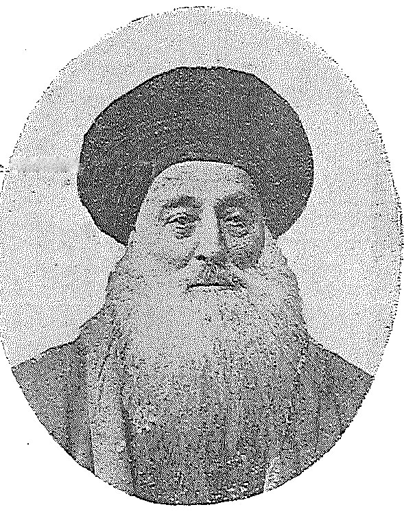 Joseph Audo - Patriarch of Babylon of the Chaldeans